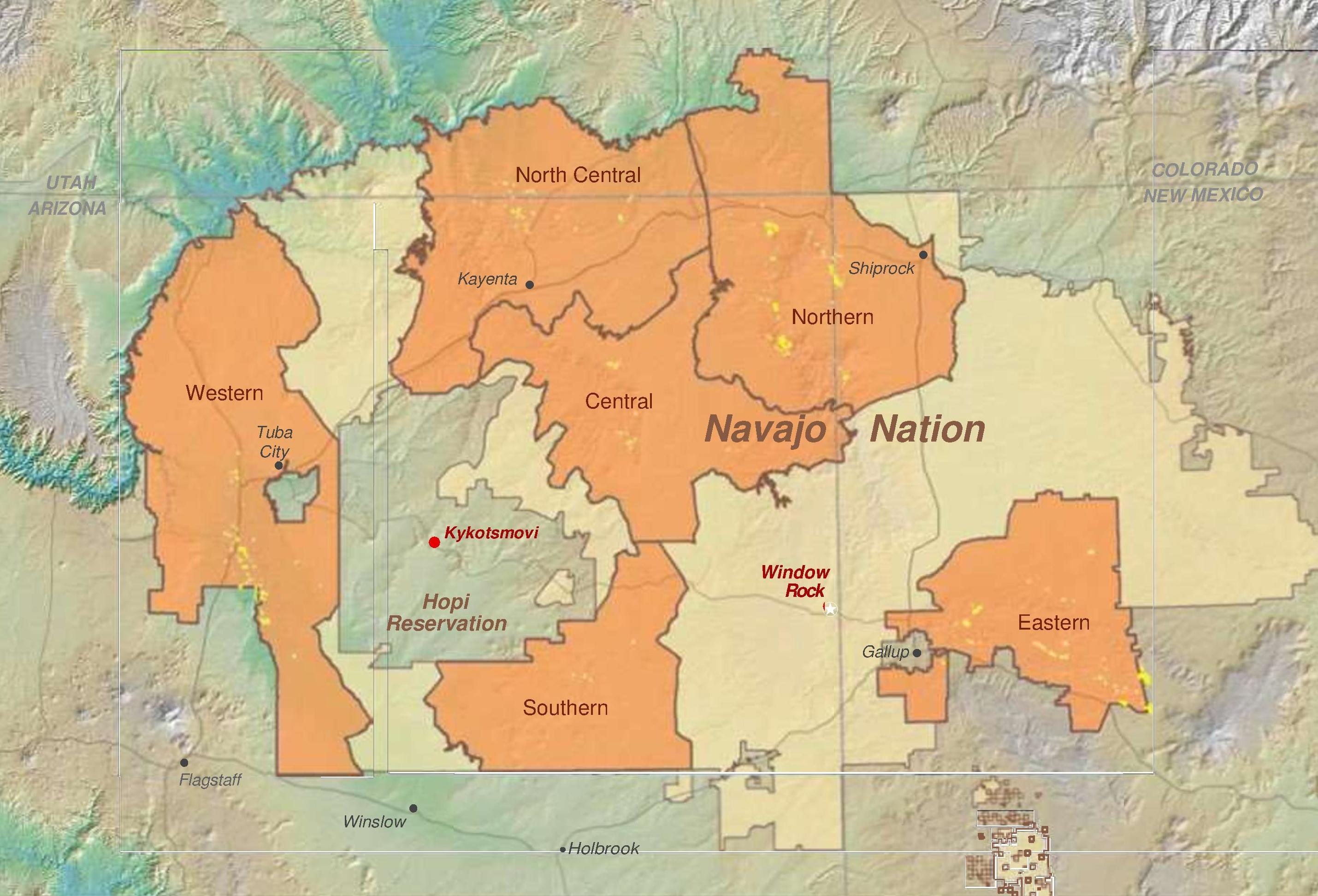 Information on the abandoned Uranium Mines and the Navajo Nation